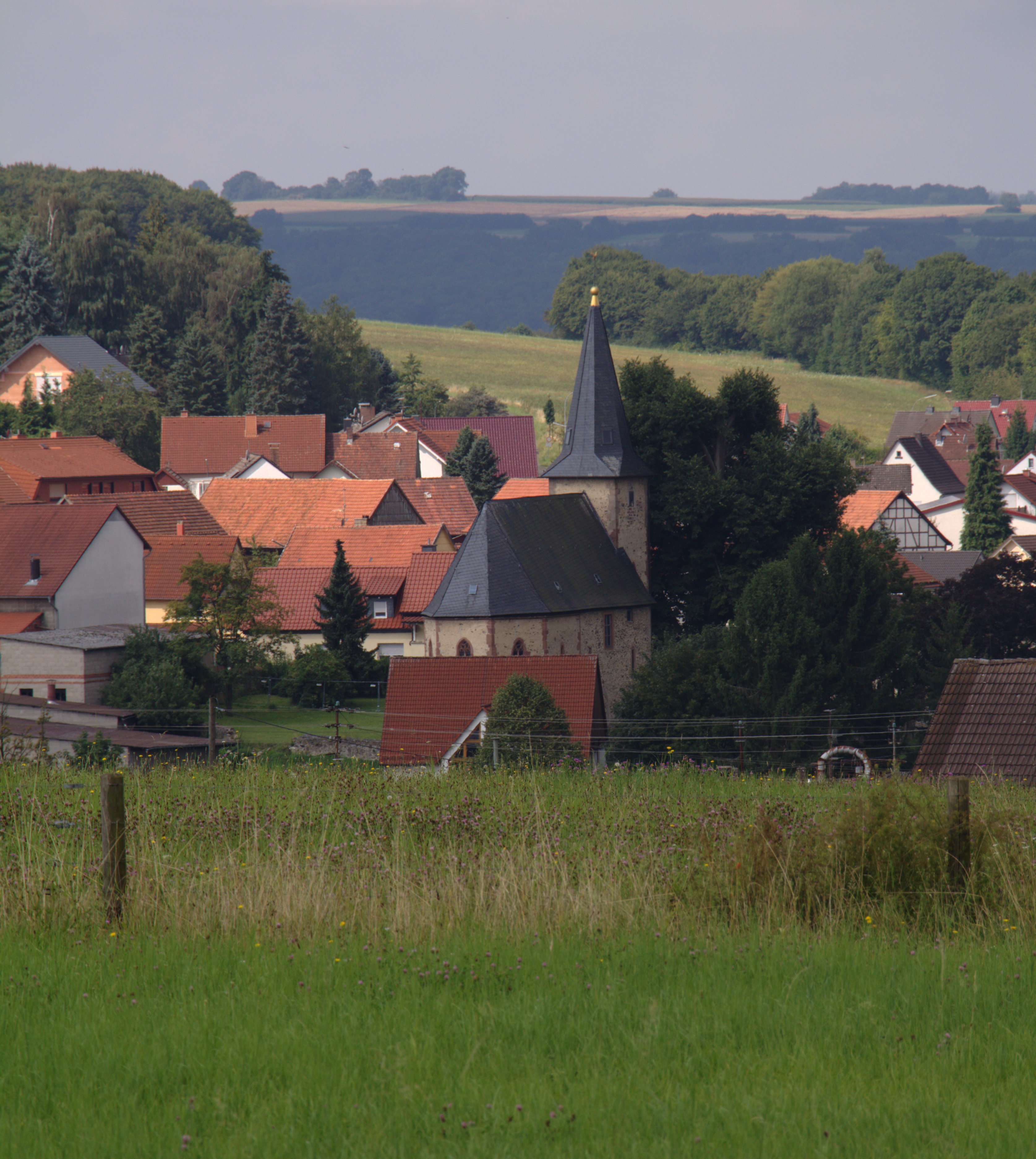 Protestant church (Martinskirche) in Brachttal Udenhain, Hesse, Germany